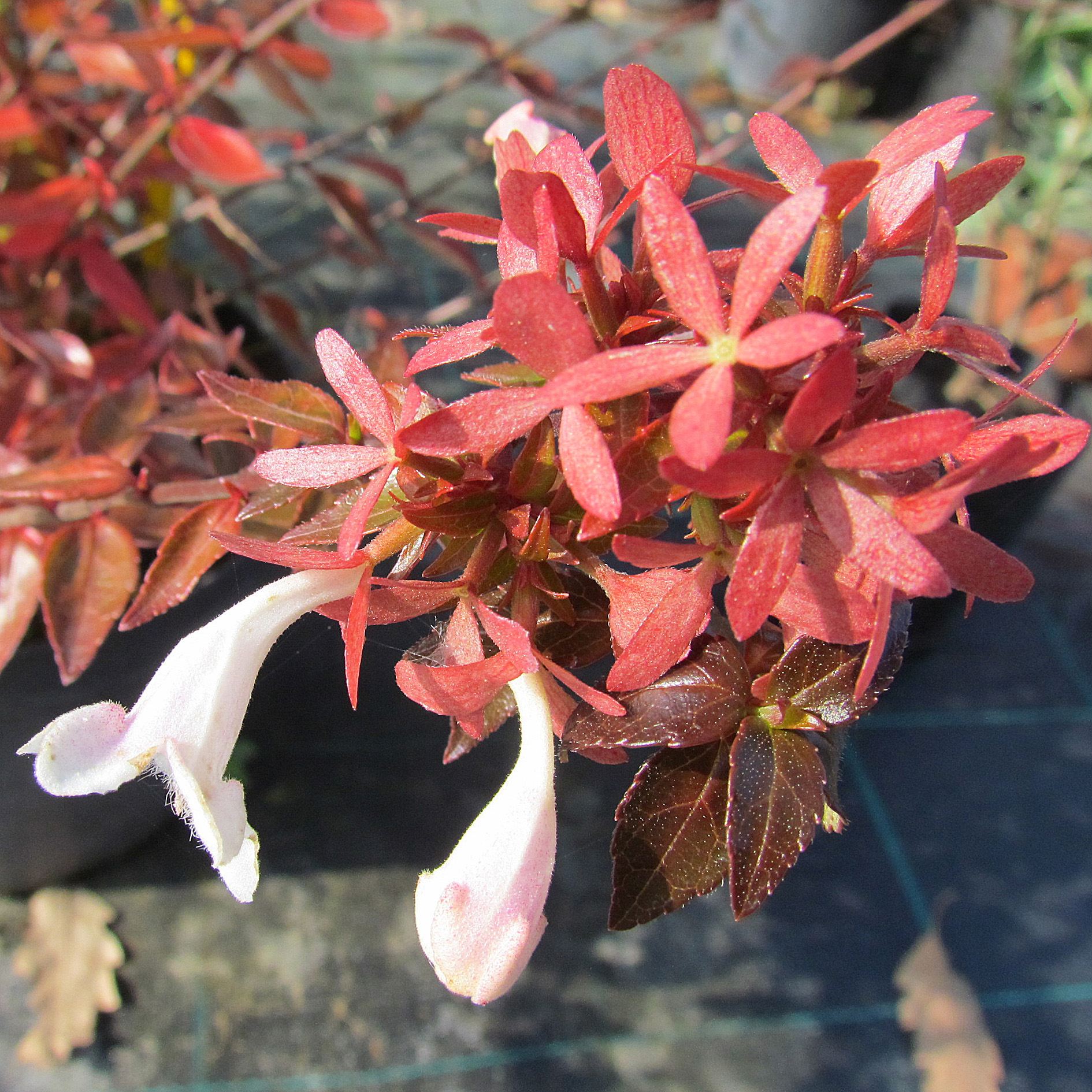 Abelia × grandiflora October